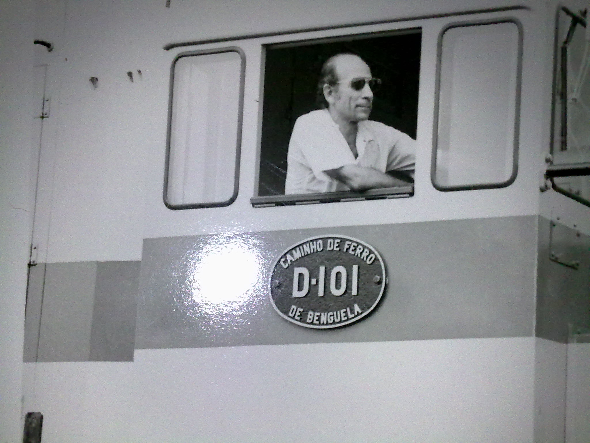 Disel locomotive belonging to CFB (Benguela Railway, Angola) in 1973.